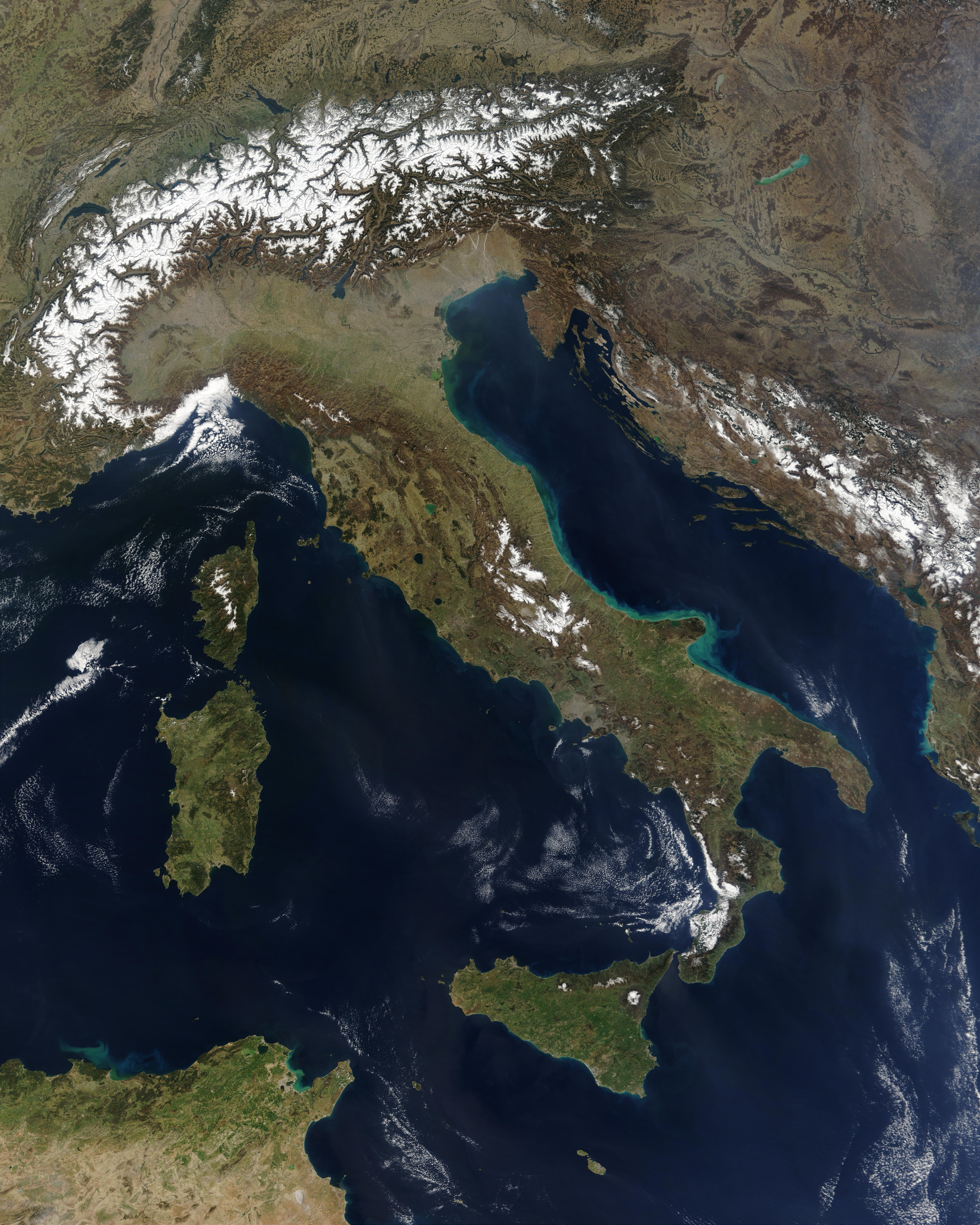 Satellite image of Italy in March 2003.